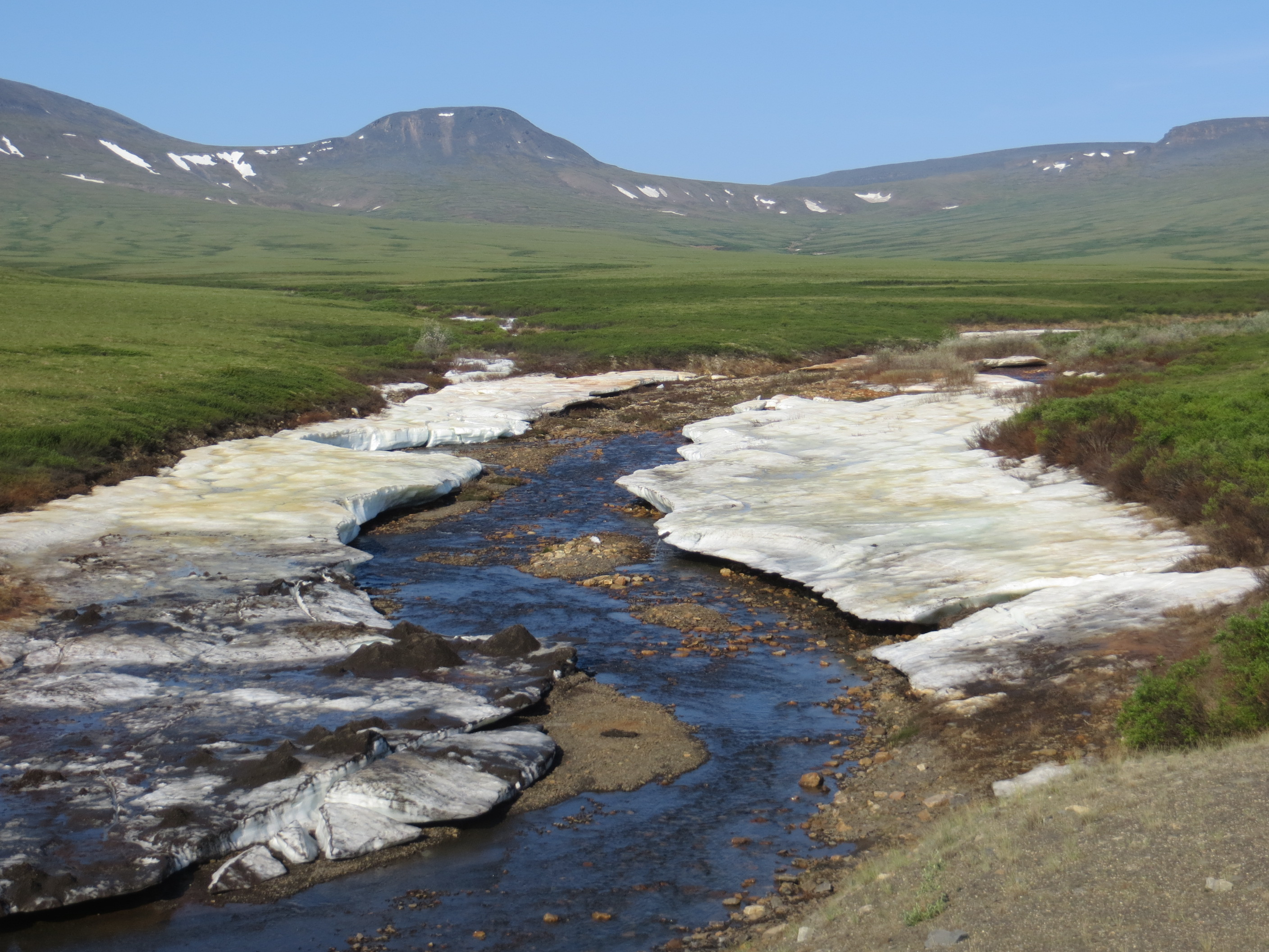 Aufeis at an arctic river, view from above, Northwest Territories, Canada.